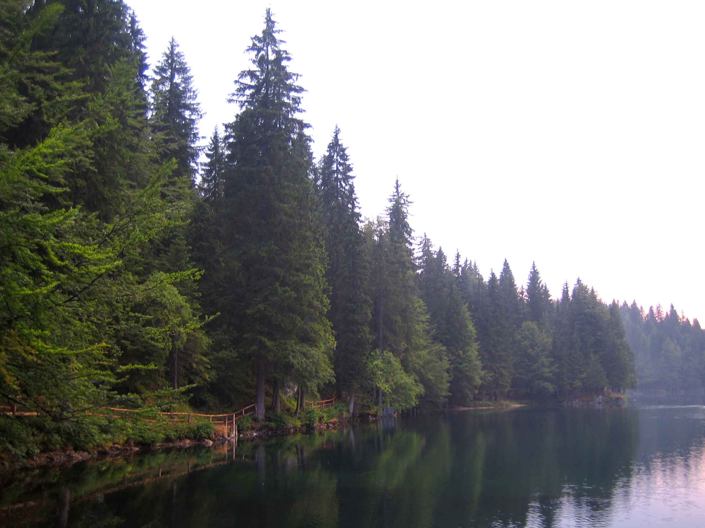 Fusine lahgi near Tarvisio, Italy (lake #1) photo:Ziga 06:57, 31 March 2007 (UTC)